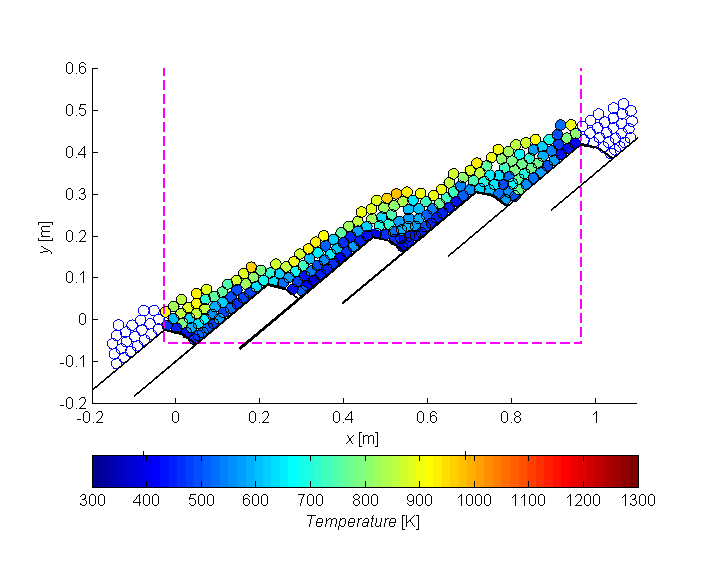 Temperature distribution of individual wood particles on a backward acting grate heated by an external radiative wall flux